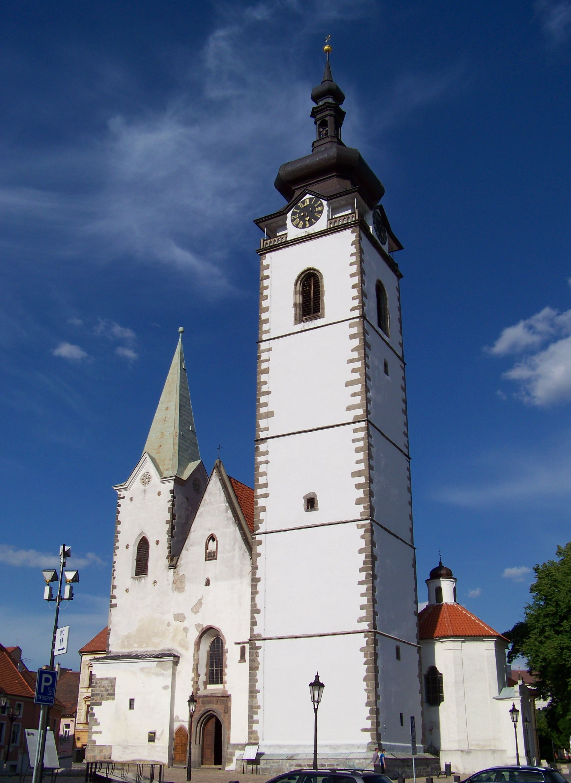 Písek-Vnitřní Město, Písek District, South Bohemian Region, the Czech Republic. Bakaláře, Church of the Nativity of the Virgin Mary.